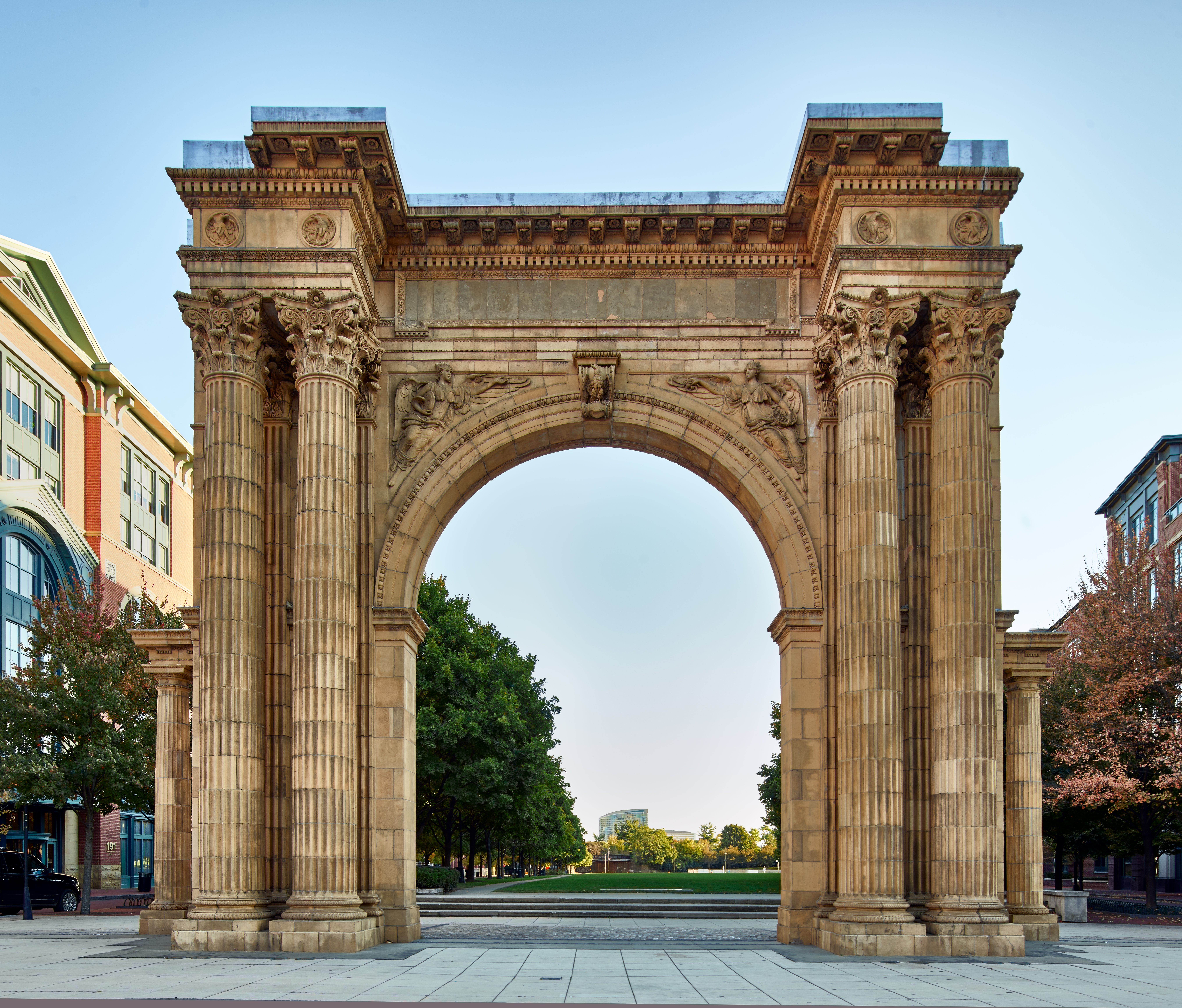 Columbus, Ohio photograph by Carol M. Highsmith.